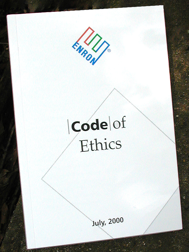 Enron Ethics Manual